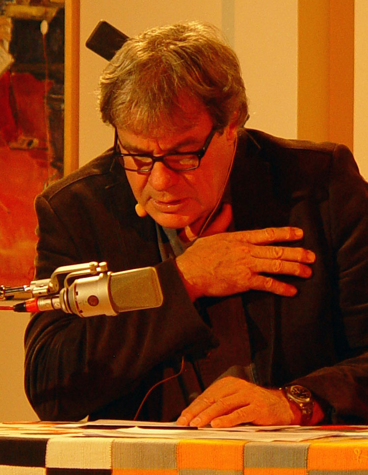 Poetic reading in Kirsten Kjaers Museum, Langvad (DK)